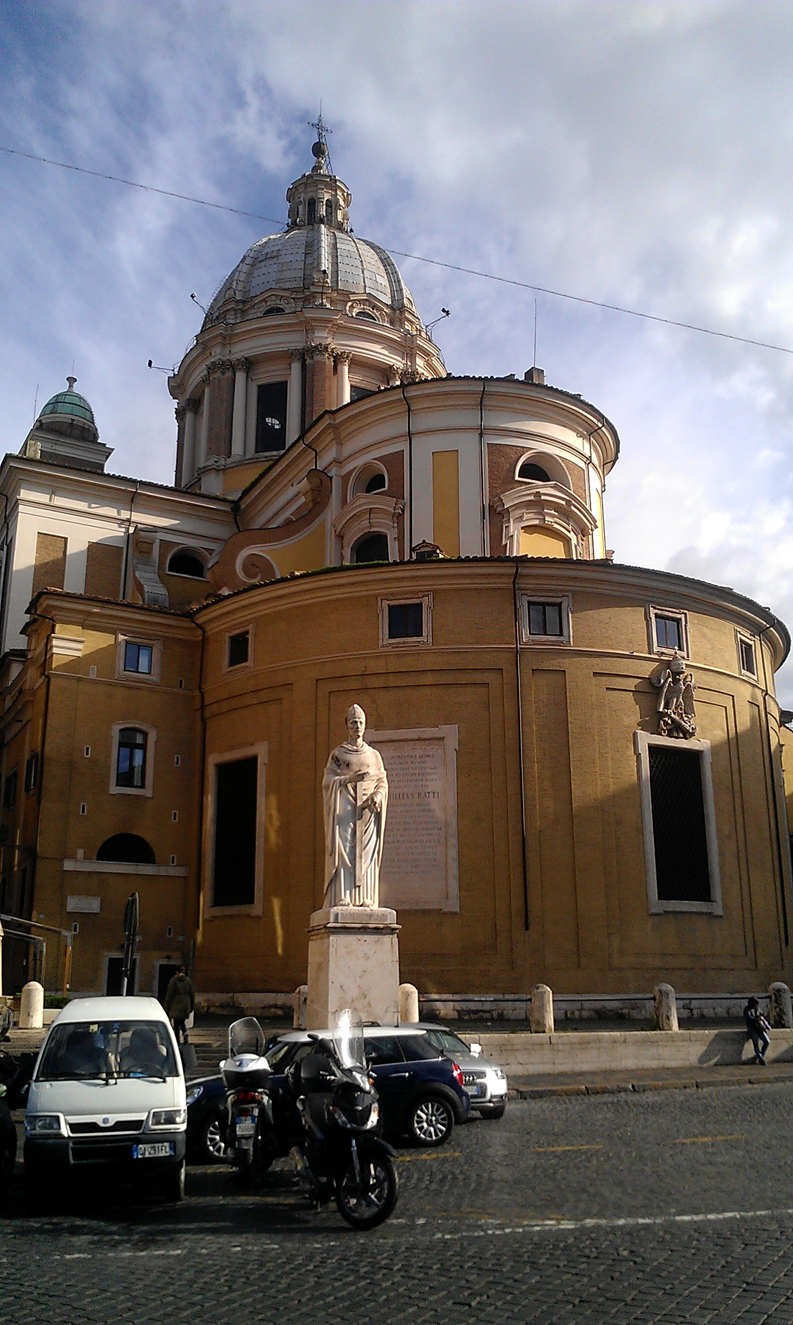 Rear of the San Carlo al Corso in Rome.